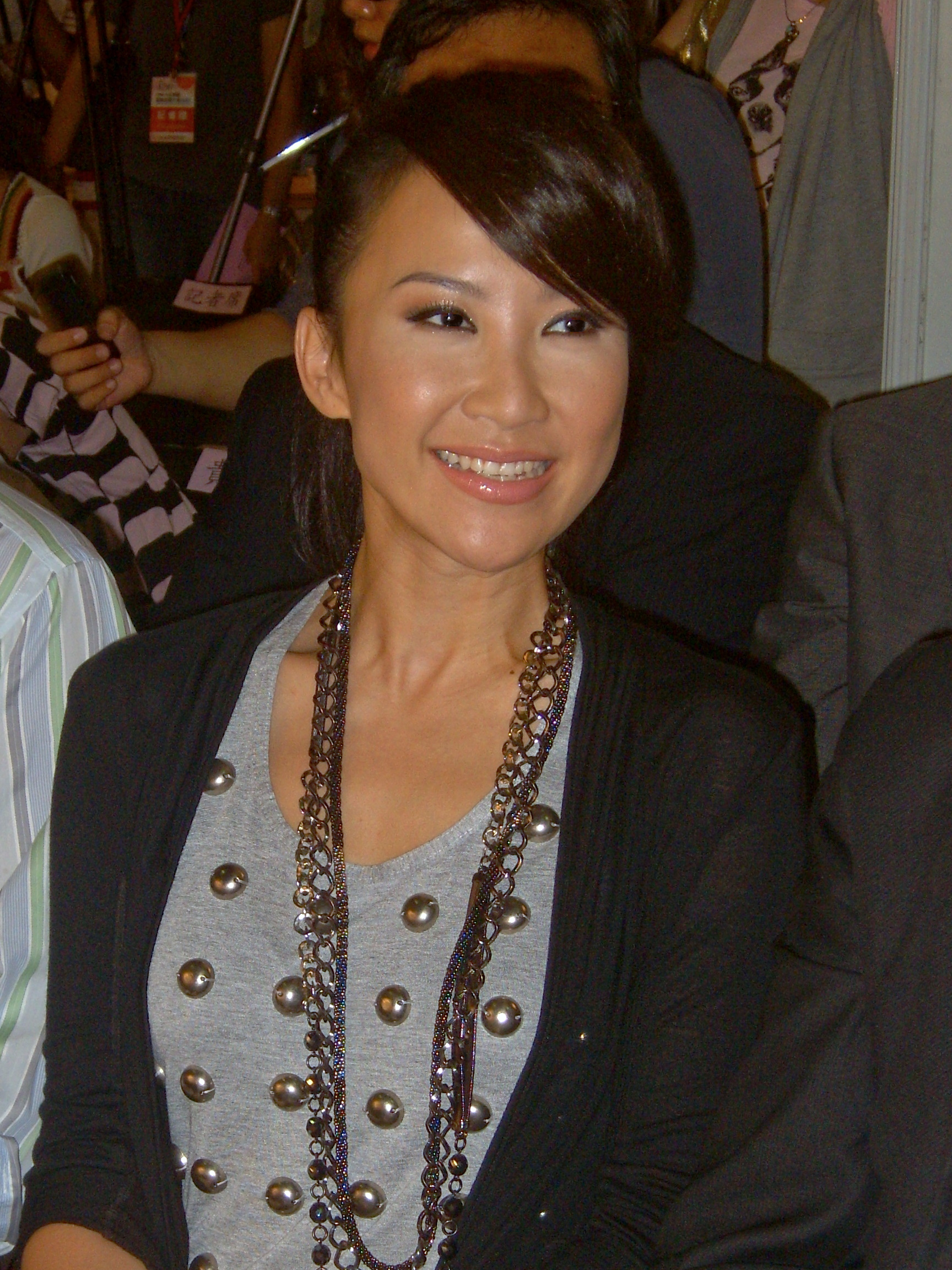 CoCo Lee at Opening Ceremony of 2009 Taipei International Chain and Franchise Exhibition.